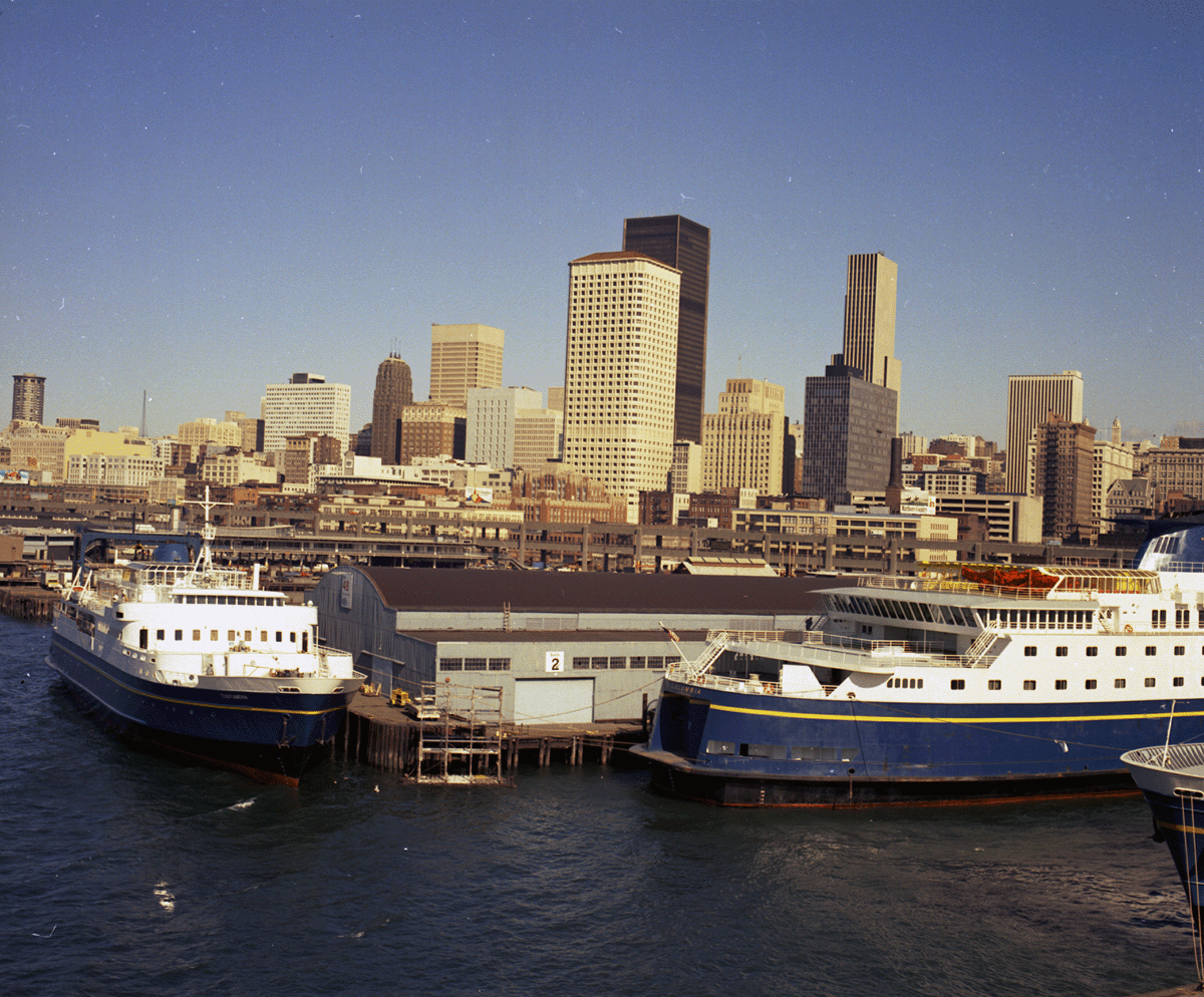 Item 73014, Engineering Department Photographic Negatives (Record Series 2613-07), Seattle Municipal Archives. Alaska State Ferries. Pier 48 was their Seattle terminal.